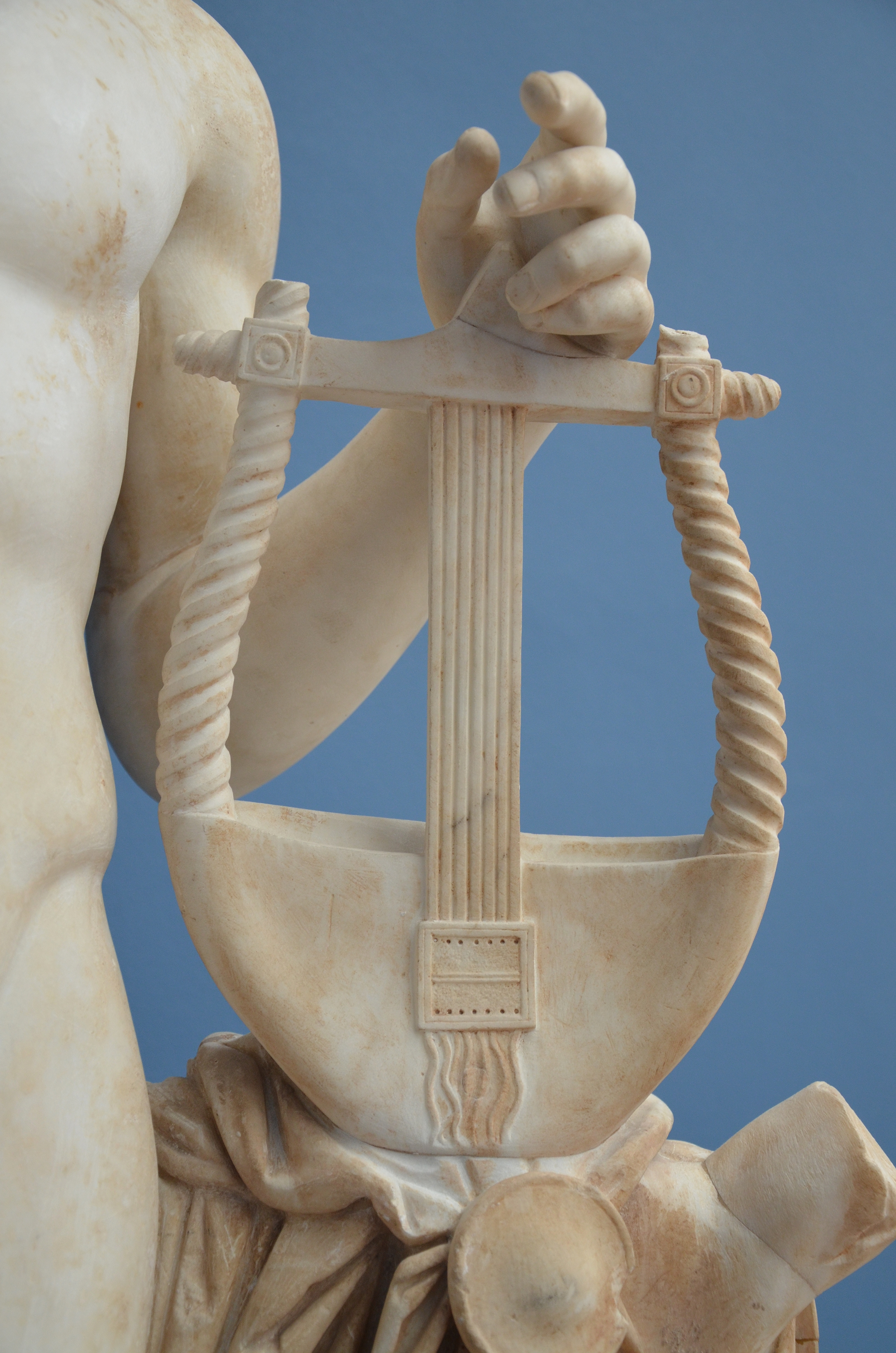 The god is depicted with his attributes, the lyre and the sacred snake Python. The tree trunk around which the snake is wrapped is inscribed with the words "Apollonios made it". Circa 150 AD (during the reign of Antoninus Pius), restored c. 1790. Item number IN 1632.